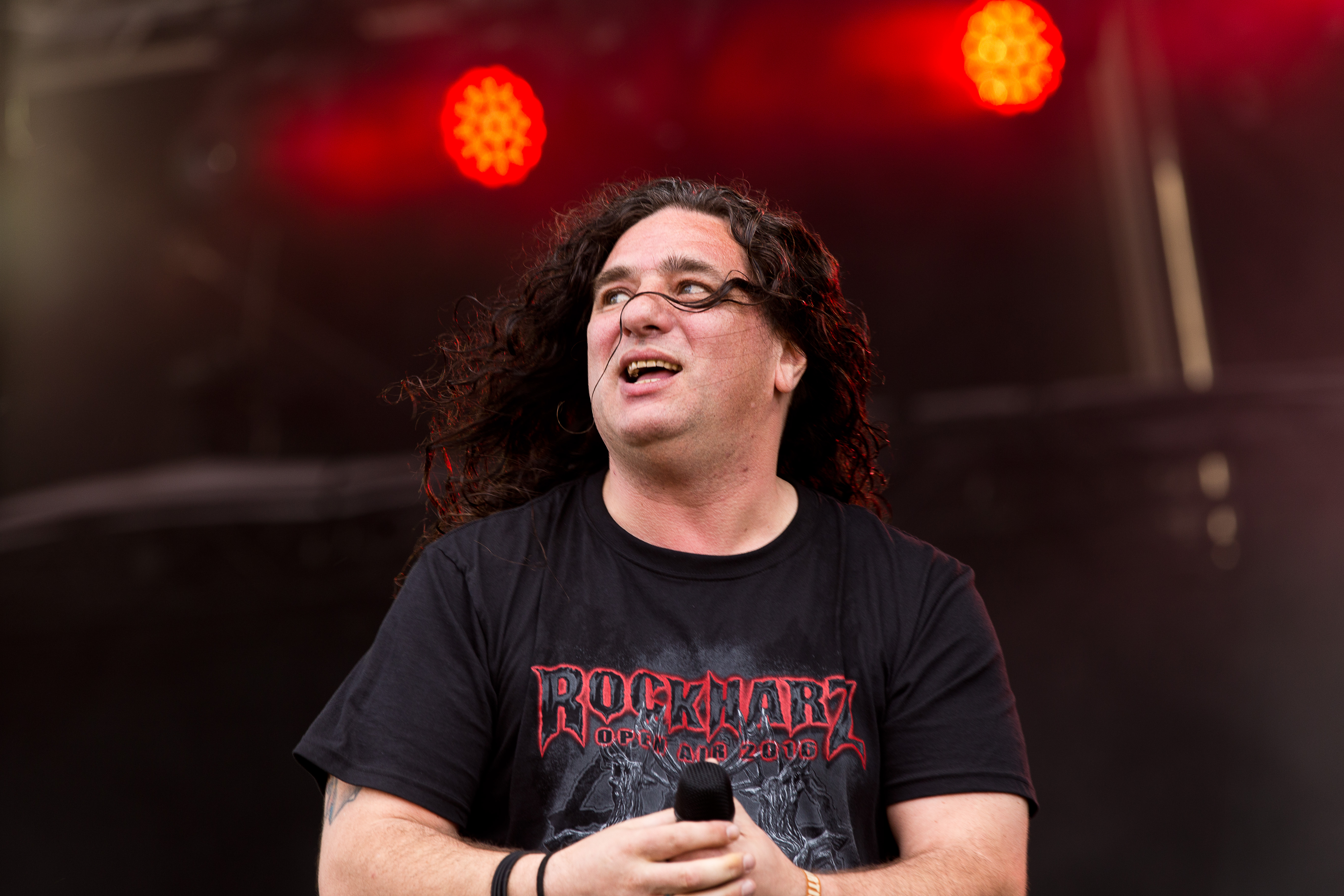 The German thrash metal band Tankard at the Rockharz Open Air 2016 in Ballenstedt/Germany.